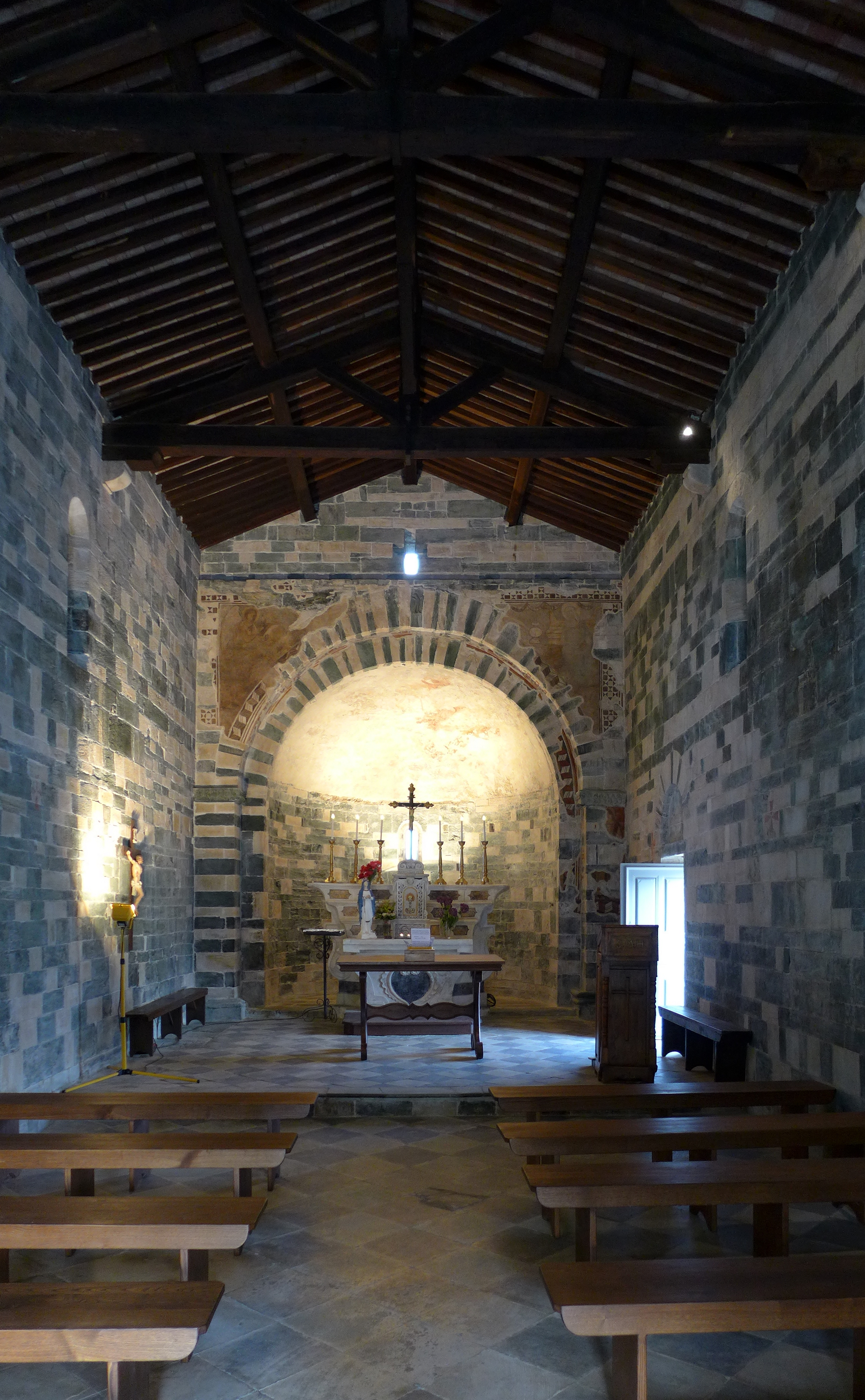 Murato (Corsica) - San Michele Church (12th century)